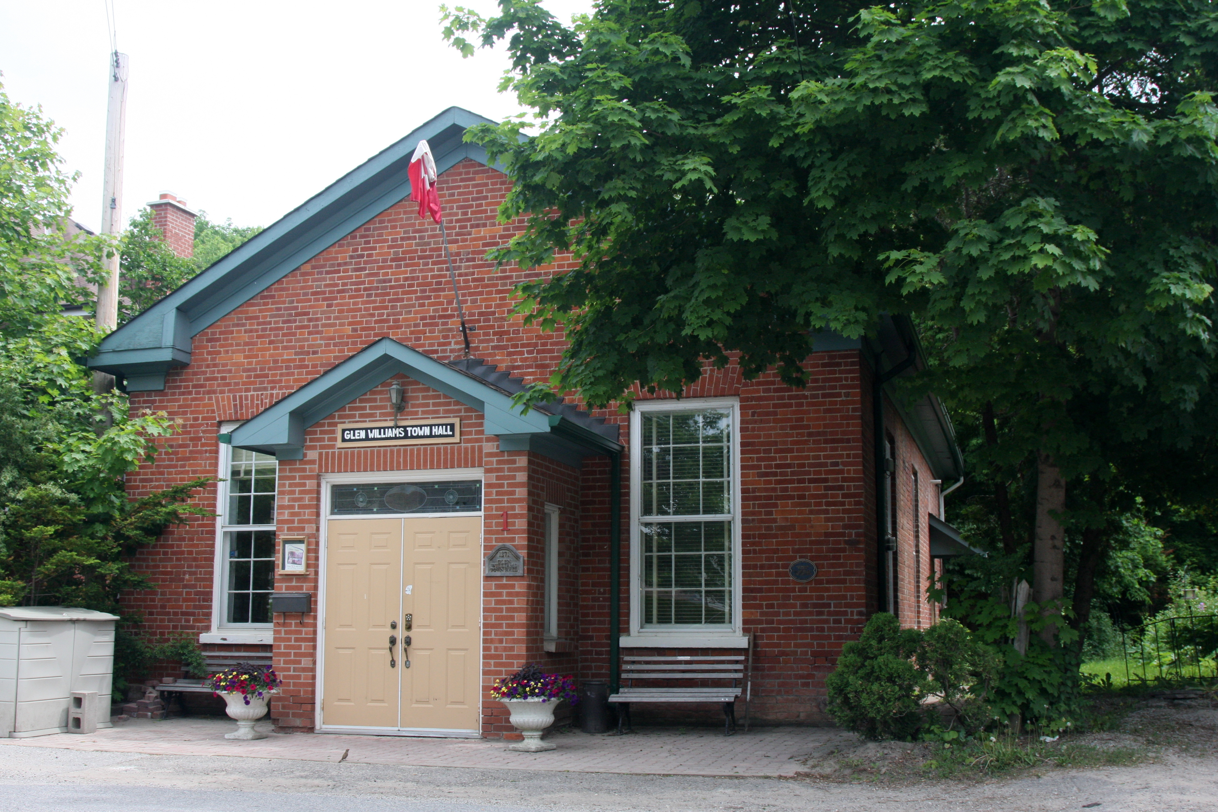 Glen Williams Town Hall has been central to the history of the Village. The Good Templars of Royal Oak Temple approached Charles Williams for a piece of land for a community hall which they could also use for their temperance society meetings. Charles Williams deeded the land to nine trustees to be held in trust for the community. Built from 1870 to 1871, Glen Williams Town Hall has housed numerous societies, churches, political meetings and acted as a polling station for elections. In the twentieth century the hall provided the stage for dances and Canadian author Lucy Maud Montgomery who staged many works there with her Union Dramatic Players. For a brief time from 1949 (due to the collapse of the Glen Williams Public School during renovations) school classes opened in the Town Hall, and in 1953 the building was officially leased to the Board of Education. After the school was relocated, the Town Hall was returned to the community. In 1976, the Town Hall was restored and in 1981 it returned to the original system whereby trustees oversaw its administration. Annual elections are currently held to select these nine trustees who are the legal owners of the building during their time of office. Glen Williams Town Hall continues to play an important role in community life. Glen Williams Town Hall is a good representation of the Colonial “Cape Cod” style built out of small, hand pressed red clay brick made just north of Glen Williams. The hall's small stature, symmetrical facade with central entrance and multi-paned windows reflect the Colonial “Cape Cod” style. Also in keeping with the style, the building has little ornamentation.